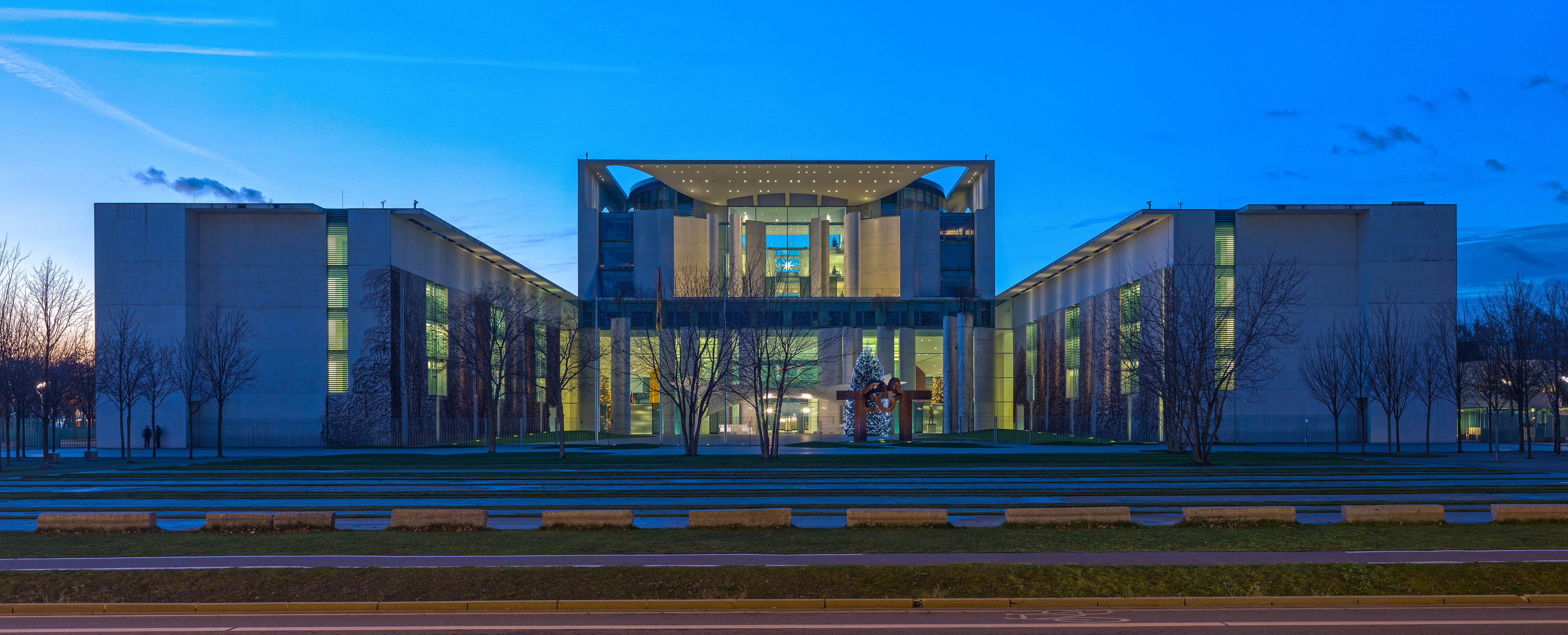 The Federal Chancellery in Berlin. It was planned by the architects Axel Schultes and Charlotte Frank and built in the years 1997-2001. In front of it there's a christmas tree as well as the monument "Berlin" by Eduardo Chillida. The photo was taken during the blue hour.